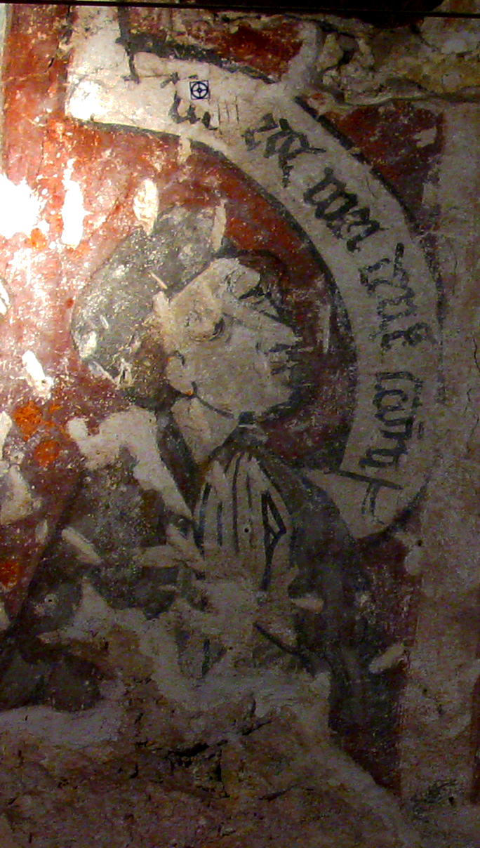 Hypothetical portrait of Jan Długosz on fresco in Wiślica